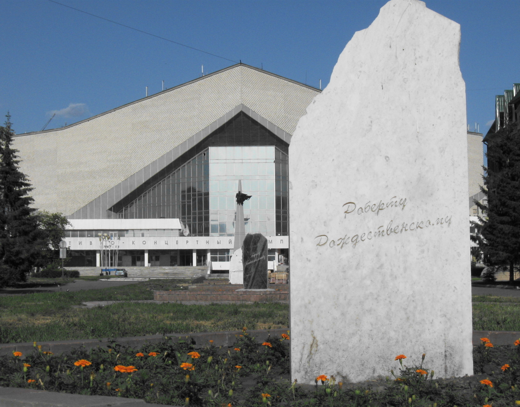 Memorial stone to famous Russian poet Robert Rozhdestvensky (2007). Omsk, Russia.